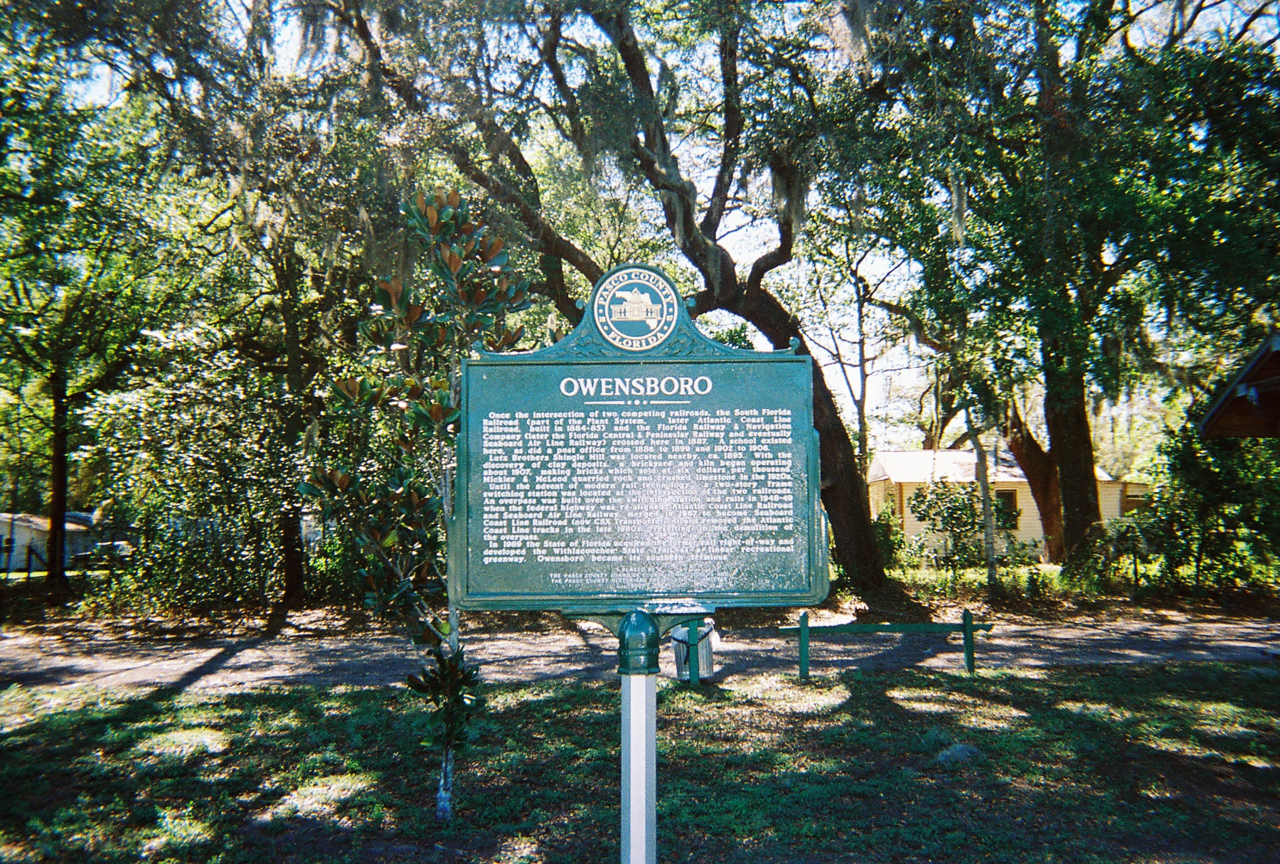 Historic plaque for the former town of Owensboro, Florida at the current Owensboro Junction Trailhead on the south end of the Withlacoochee State Trail near Trilby, Florida